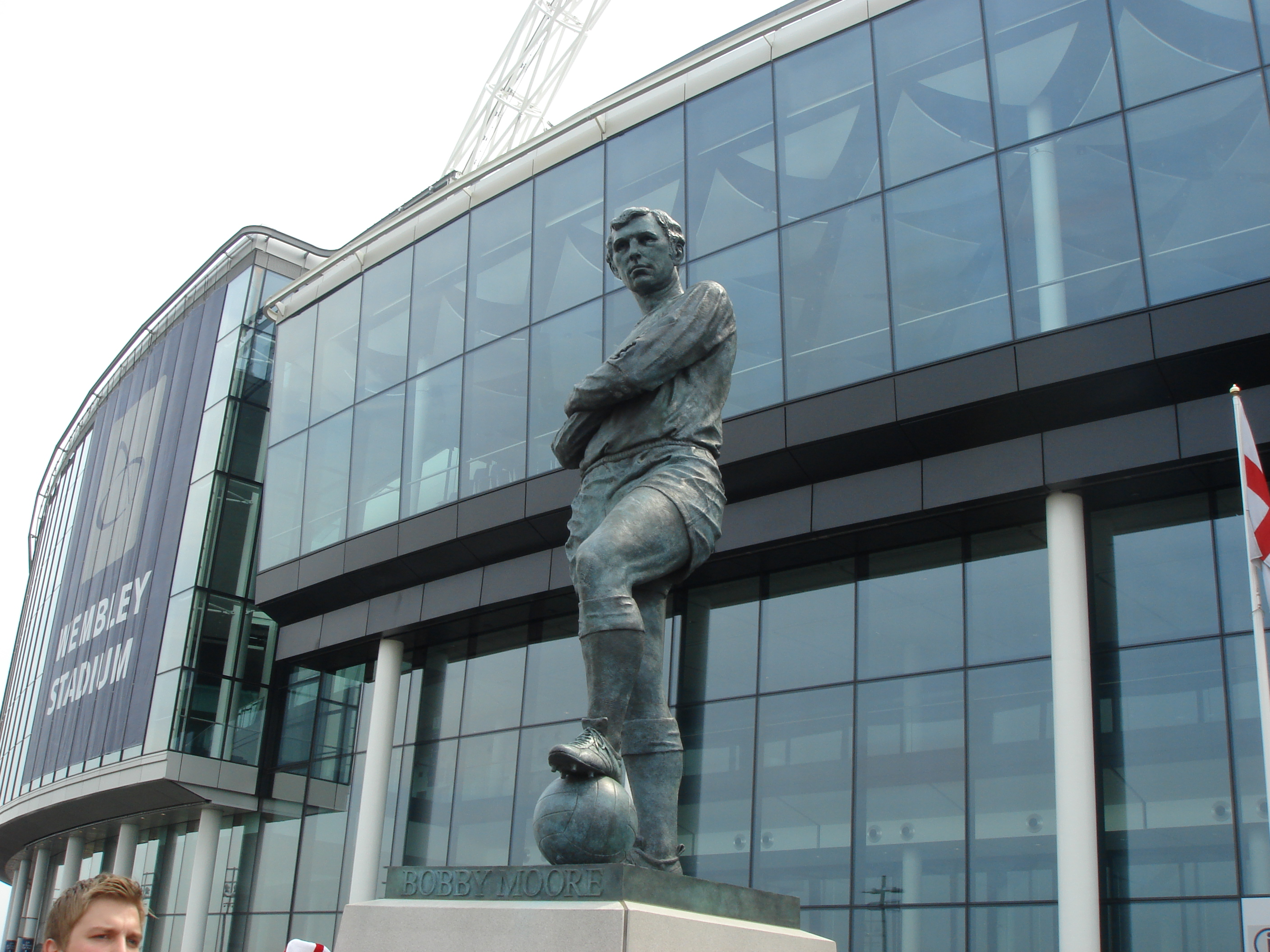 Bobby Moore Statue